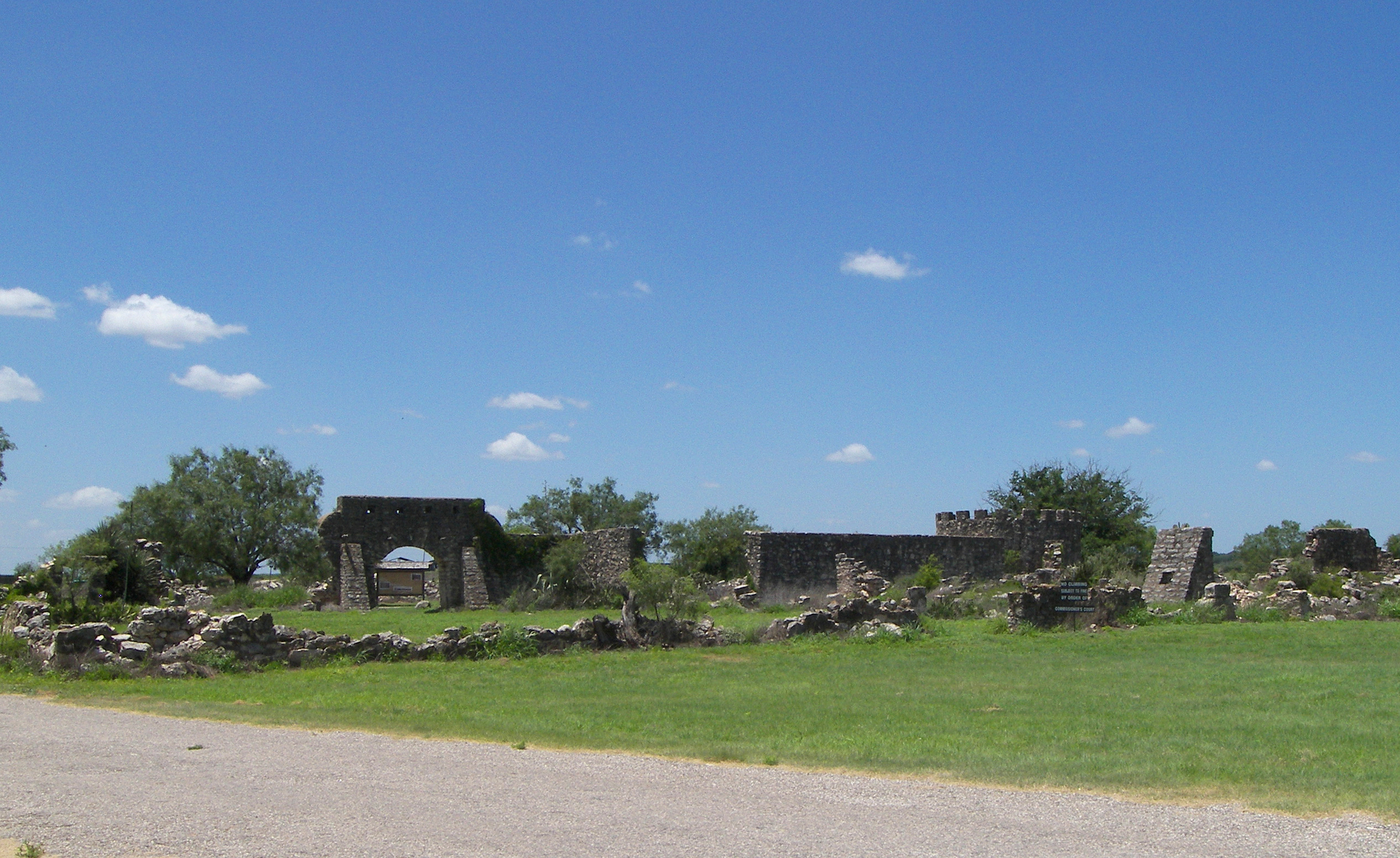 The ruins of Presidio San Luis de las Amarillas located west of Menard, Texas, United States. The ruins were added to the National Register of Historic Places on August 25, 1972.